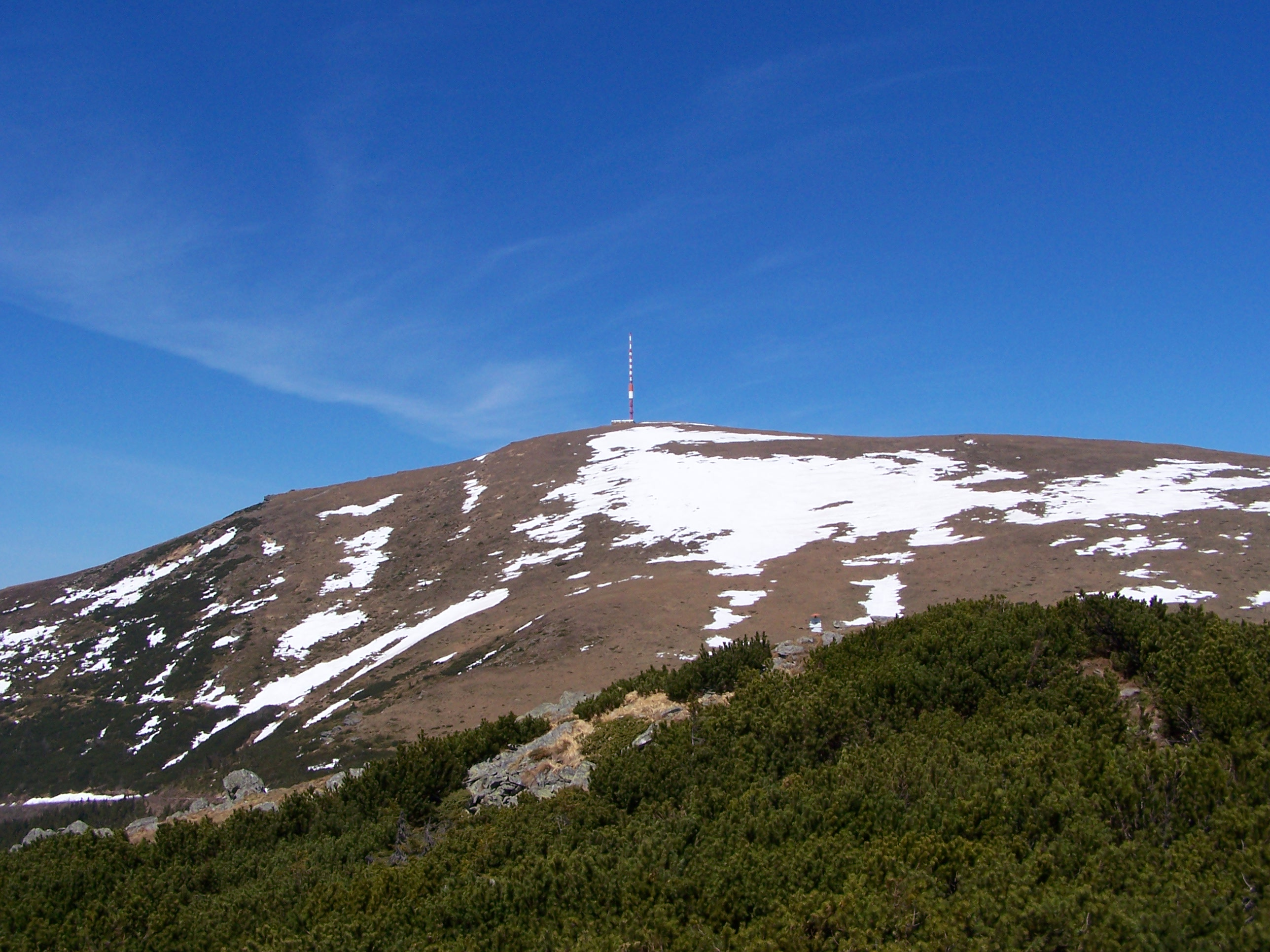 Kráľova hoľa with TV antenna on summit